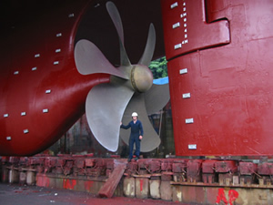 Propeller on the the M/V Green Point in drydock at Tsuneishi, Japan, 2002, from The light patches are there to prevent corrosion. The man in the photo is a midshipman at the US Merchant Marine Academy sailing as a cadet during his Sea Year. The "light patches" are zinc blocks used as sacrificial anodes.